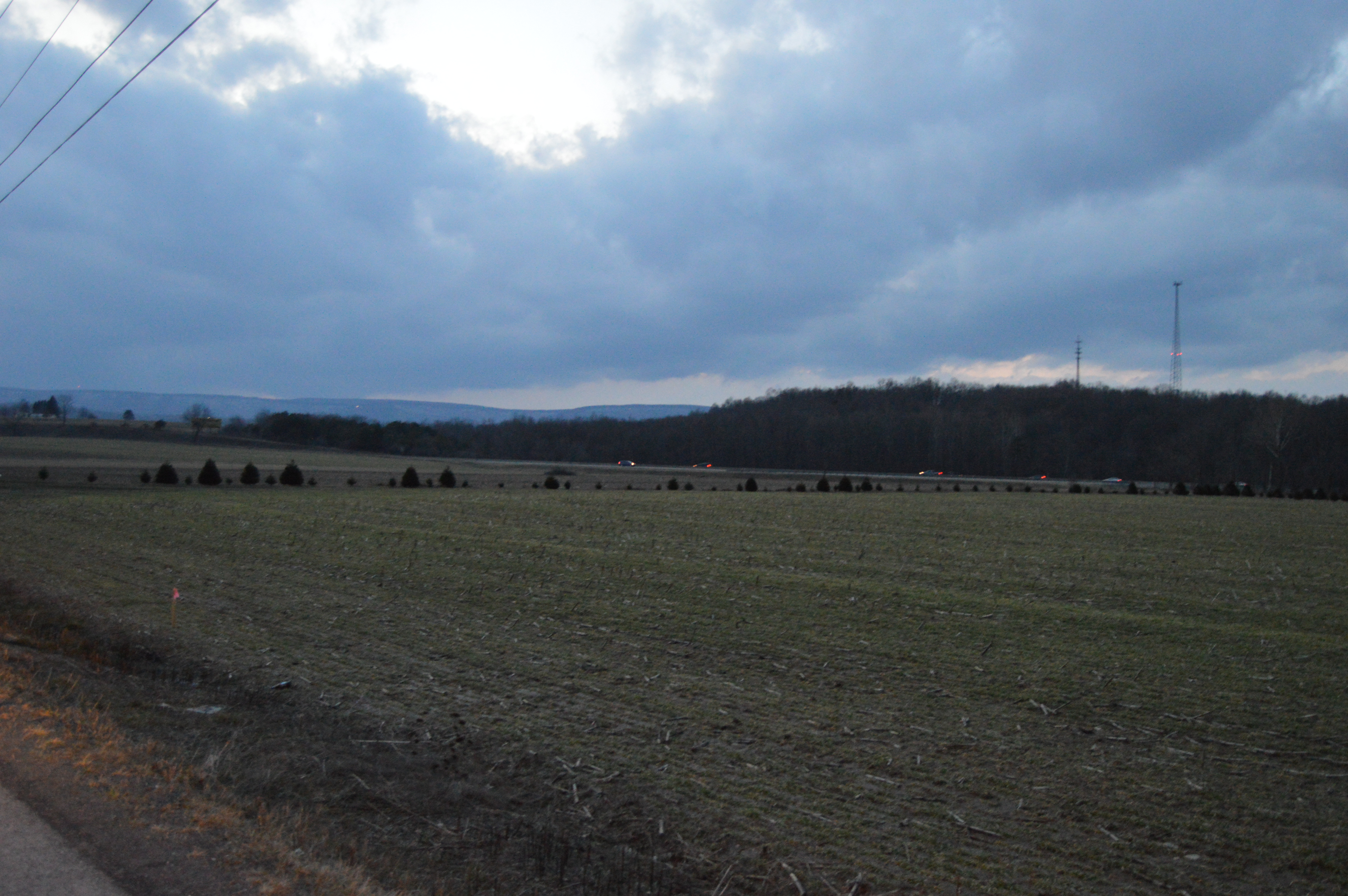 Fields in far eastern Juniata Township, Bedford County, Pennsylvania, United States. Photo looks northwest from Pennsylvania Route 31 southwest of Schellsburg. Because it is dusk, in the distance one can see headlights of cars on the Pennsylvania Turnpike.